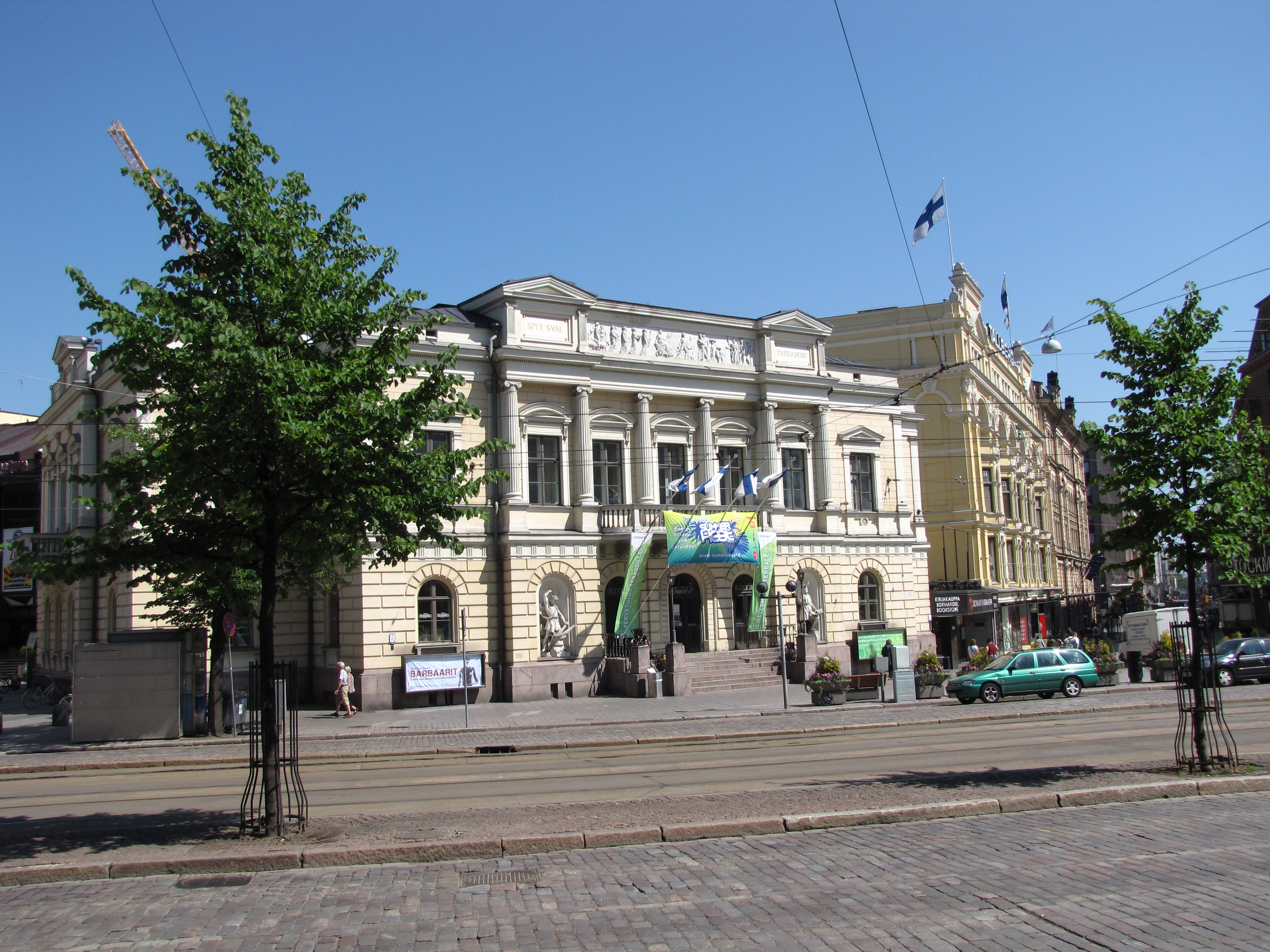 Helsinki old Student Union Building.